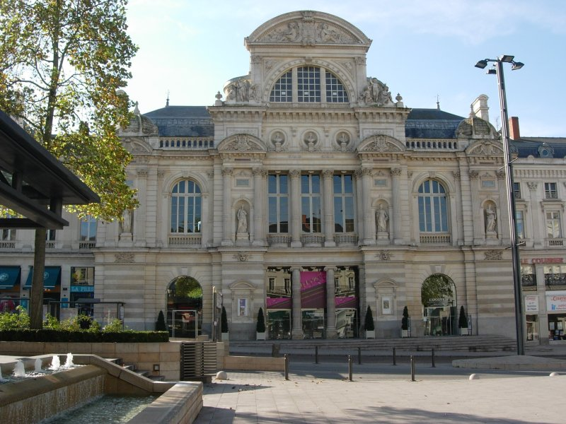 The "Grand Théâtre d'Angers" (great theatre of Angers) is the main theatre in downtown of Angers, Maine-et-Loire, France. It's a french style theatre, built from 1867 to 1871 by architects Lucien Botrel and Auguste Magne.